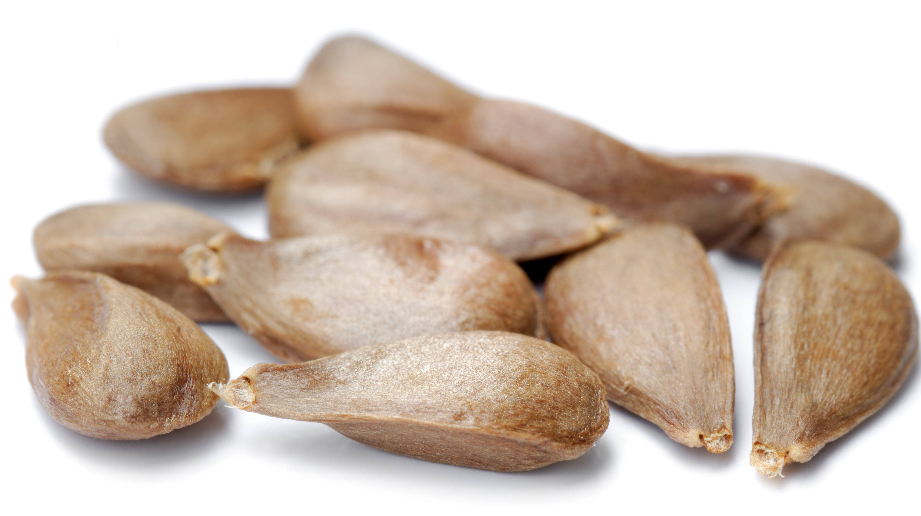 This image shows a few apple seeds of the variety "Bismarckapfel". The length of each seed is about 10 mm (0.4 inch). Thanks to Conny for providing the objects and for the assistance during the photo session.